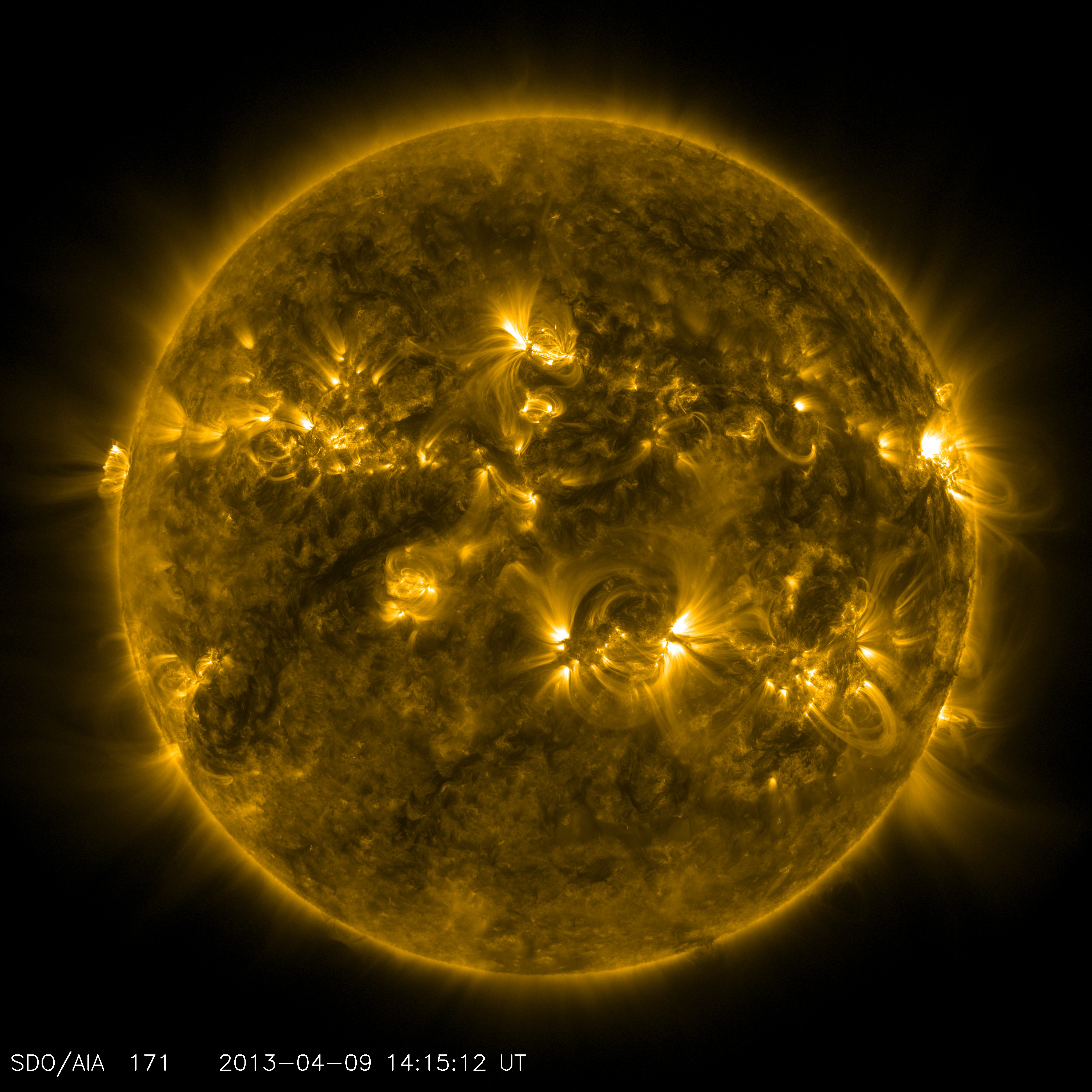 This image taken by the Solar Dynamics Observatory's Atmospheric Imaging Assembly (AIA) instrument at 171 Angstrom shows the current conditions of the quiet corona and upper transition region of the Sun.